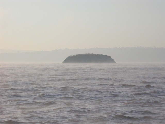 Denny Island, Bristol Channel